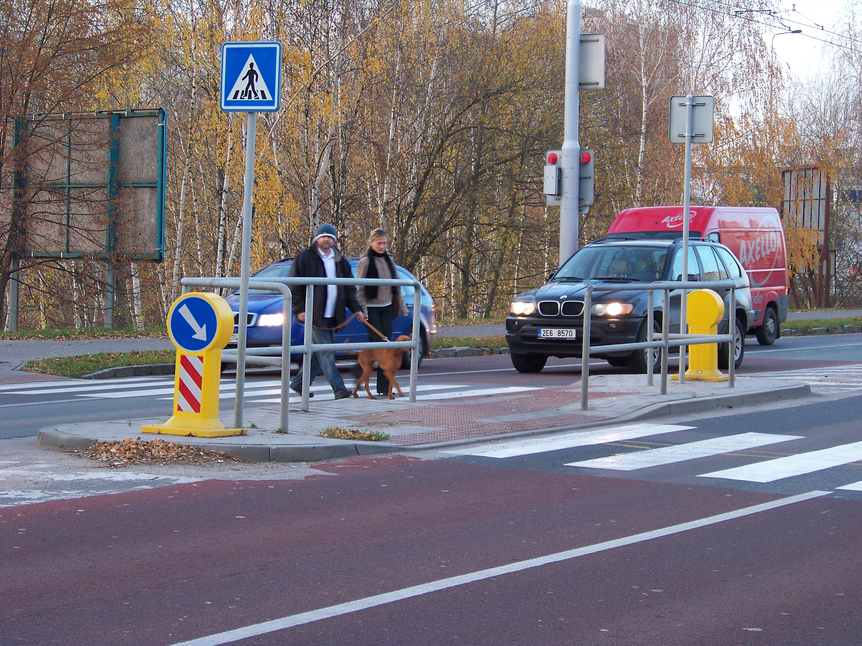 Pardubice-Polabiny, the Czech Republic. A crosswalk near the "Stavařov" bus stop.